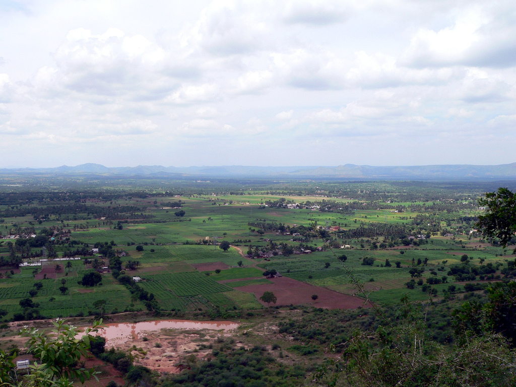 Fields and farms near Vellore, Tamil Nadu, India, seen from the Yelagiri hills.